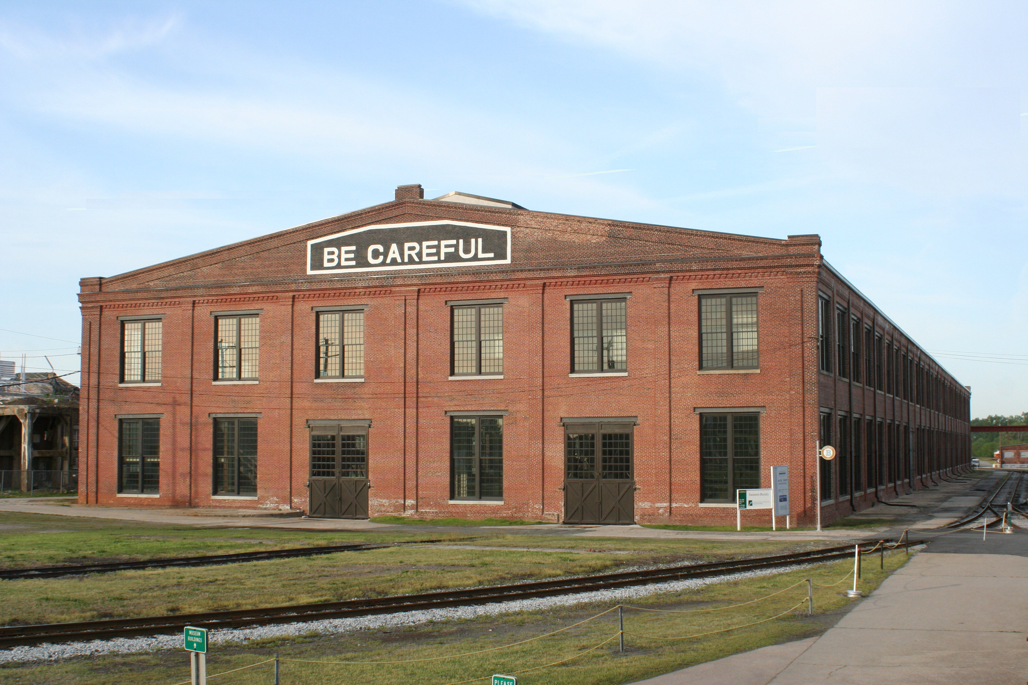 The N.C. Transportation Museum's historic 1905 Back Shop, where steam locomotives saw a complete and full restoration.